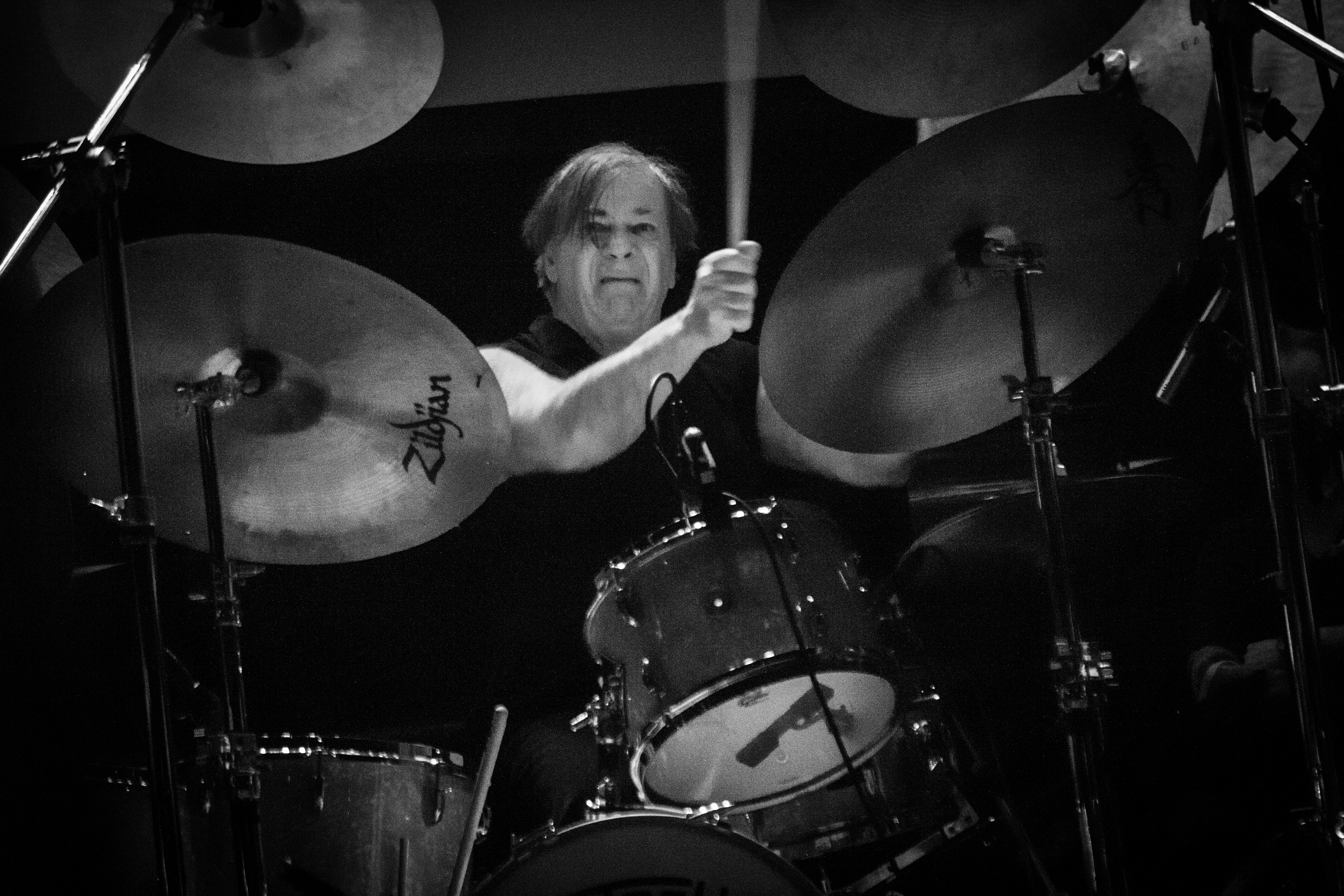 MAGMA live at Roadburn Festival, Tilburg, April 2017